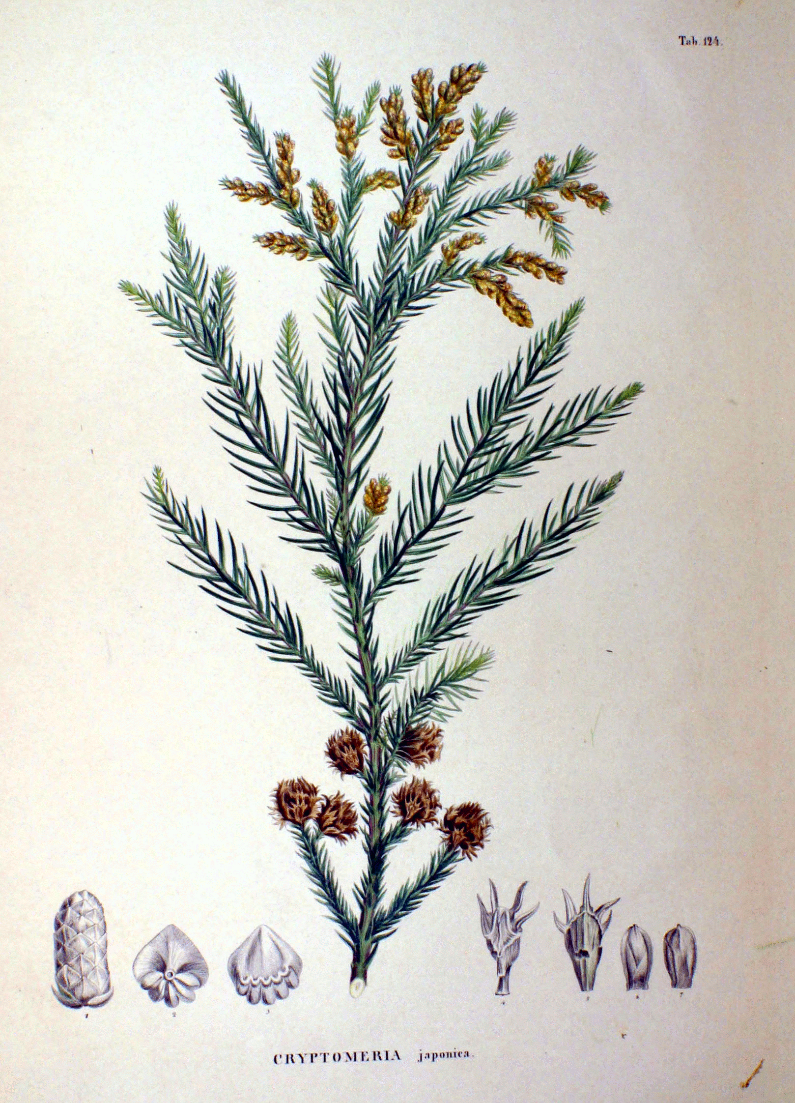 Plate from book